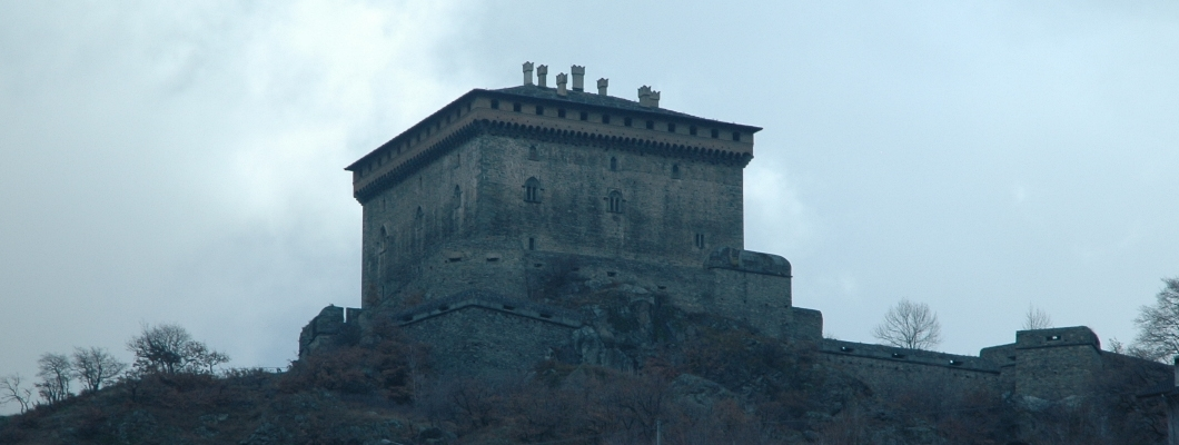 Castello di Verres - Castle of Verres (AOSTA-Italy)